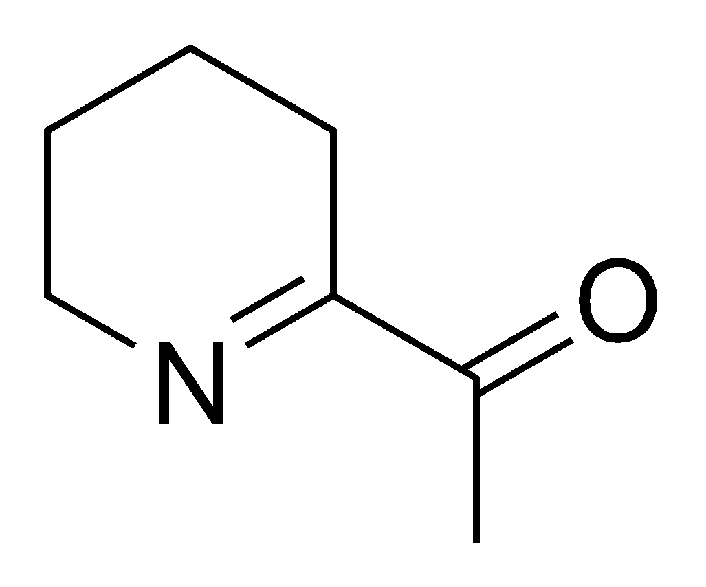 Chemical structure of 6-Acetyl-2,3,4,5-tetrahydropyridine